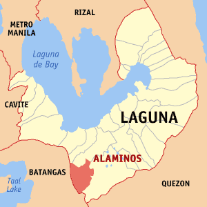 Locator map of Alaminos in Laguna, Philippines.